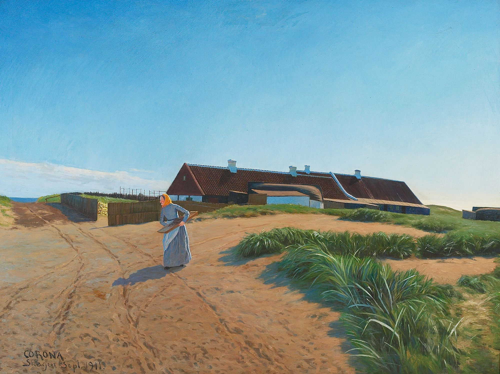 Earlier in 1911 the painter had changed his surname from Kronemann to Corona.